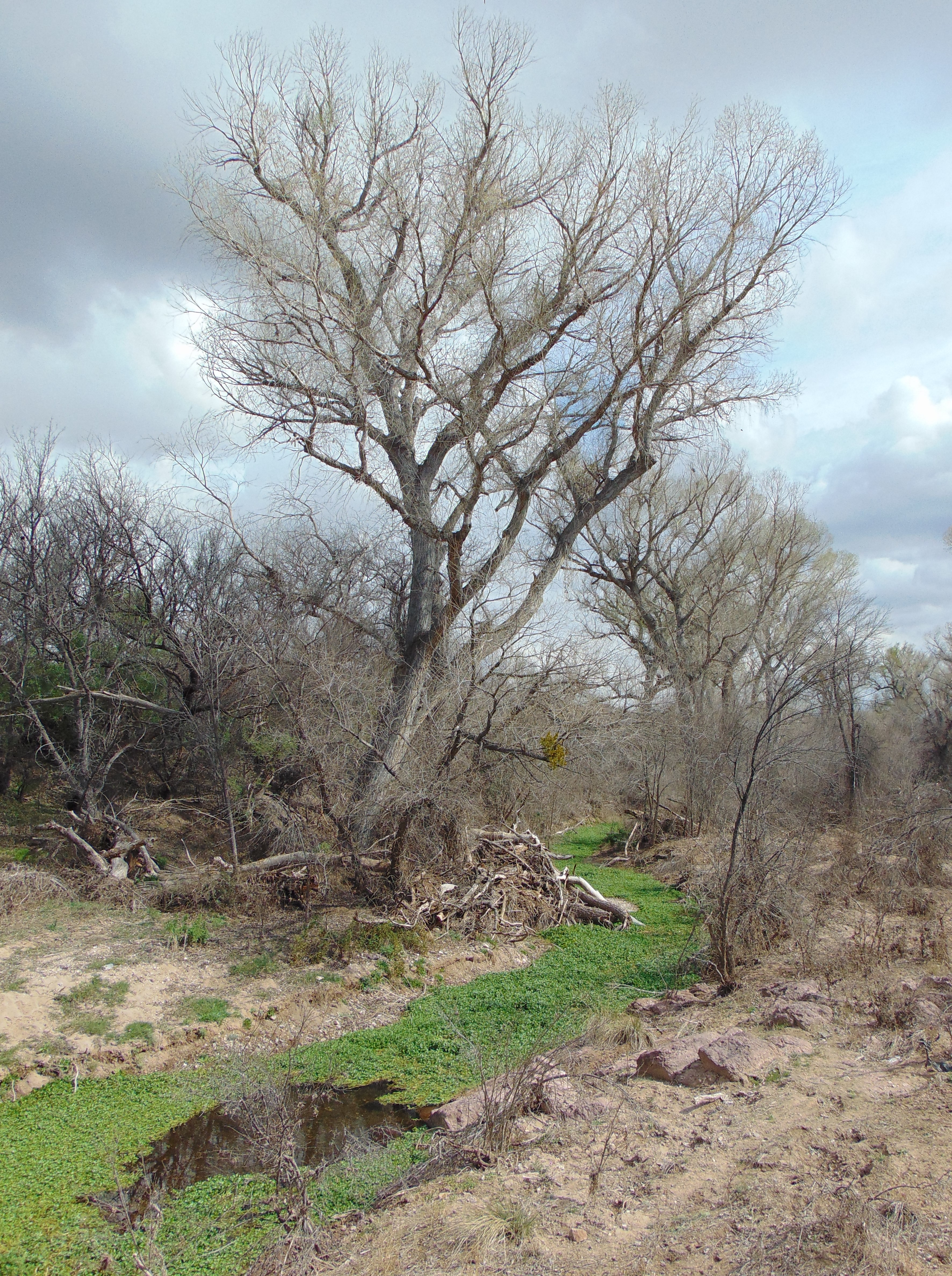 Arivaca Creek, overgrown with water weeds, near the ruins of the Wilbur Ranch in the Buenos Aires National Wildlife Refuge.